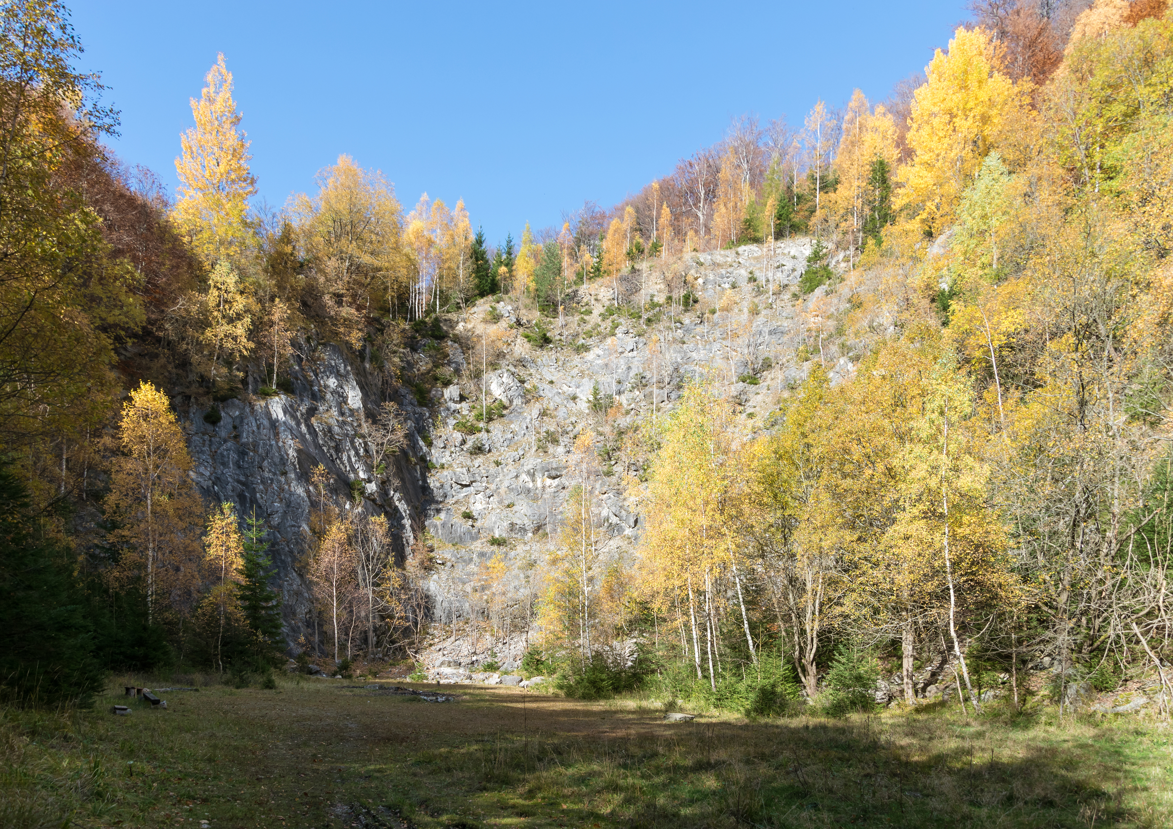 Kletno II quarry in Kletno